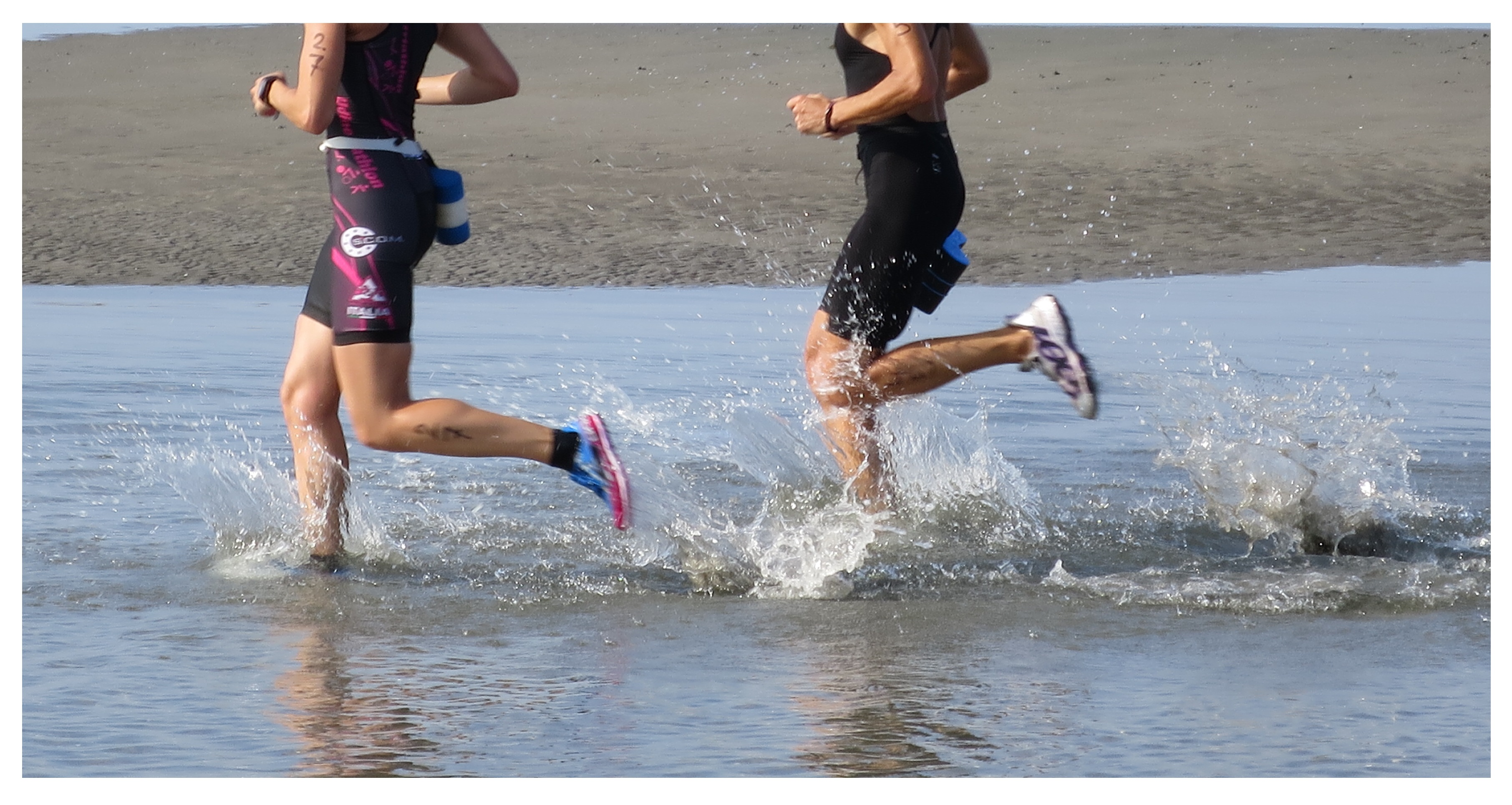 Swimrun photos